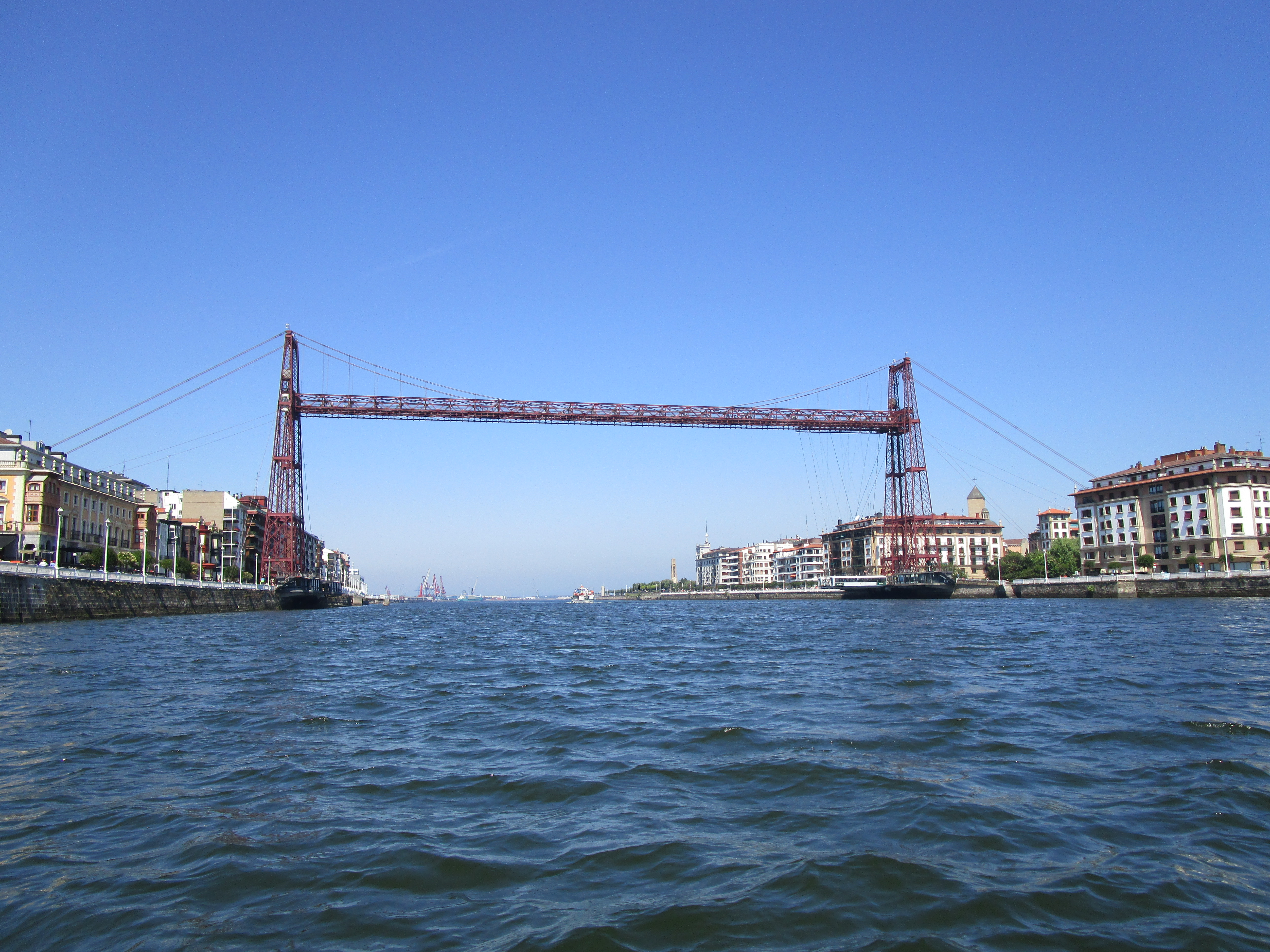 Transporter Bridge (Puente de Vizcaya or Biscay Bridge) between Portugalete and Areeta / Las Arenas, Biscay, Basque Country, Spain.